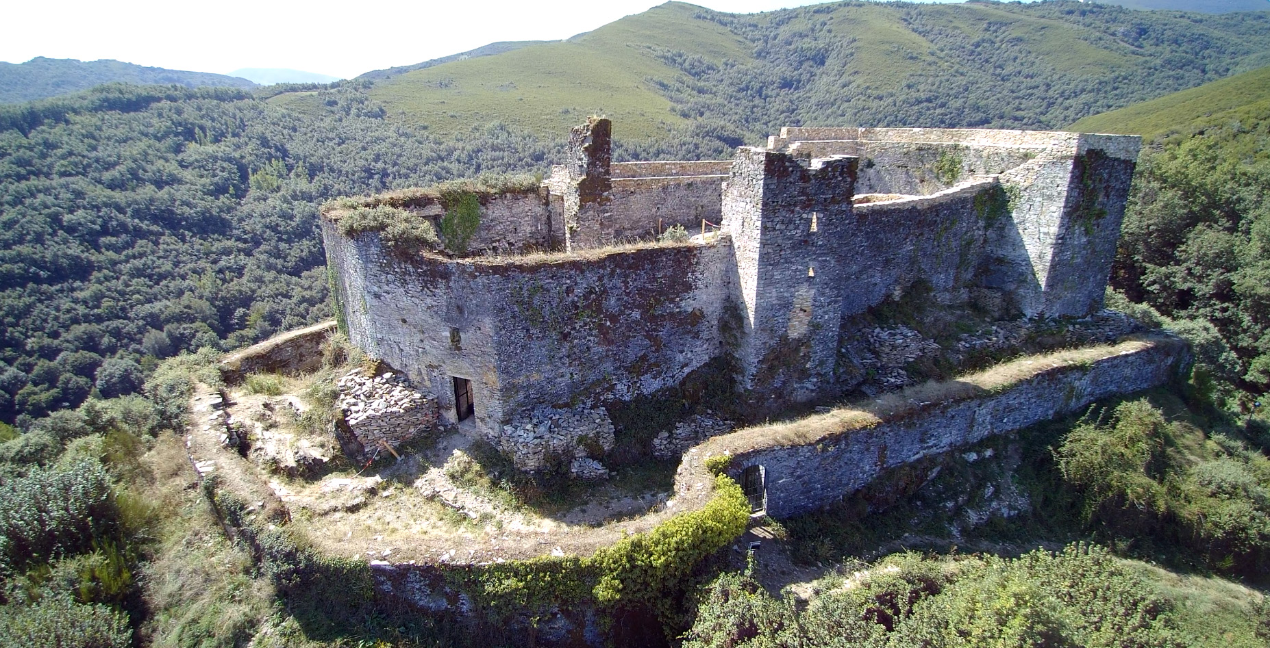 Castle of Sarracín, Vega de Valcarce, León, Spain